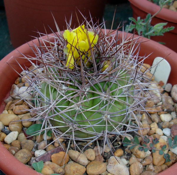 2009-05 20 cm pot This plant was bought in Ortegacactus (2008-04) as Weingartia cintiensis. Died in the winter 2010.